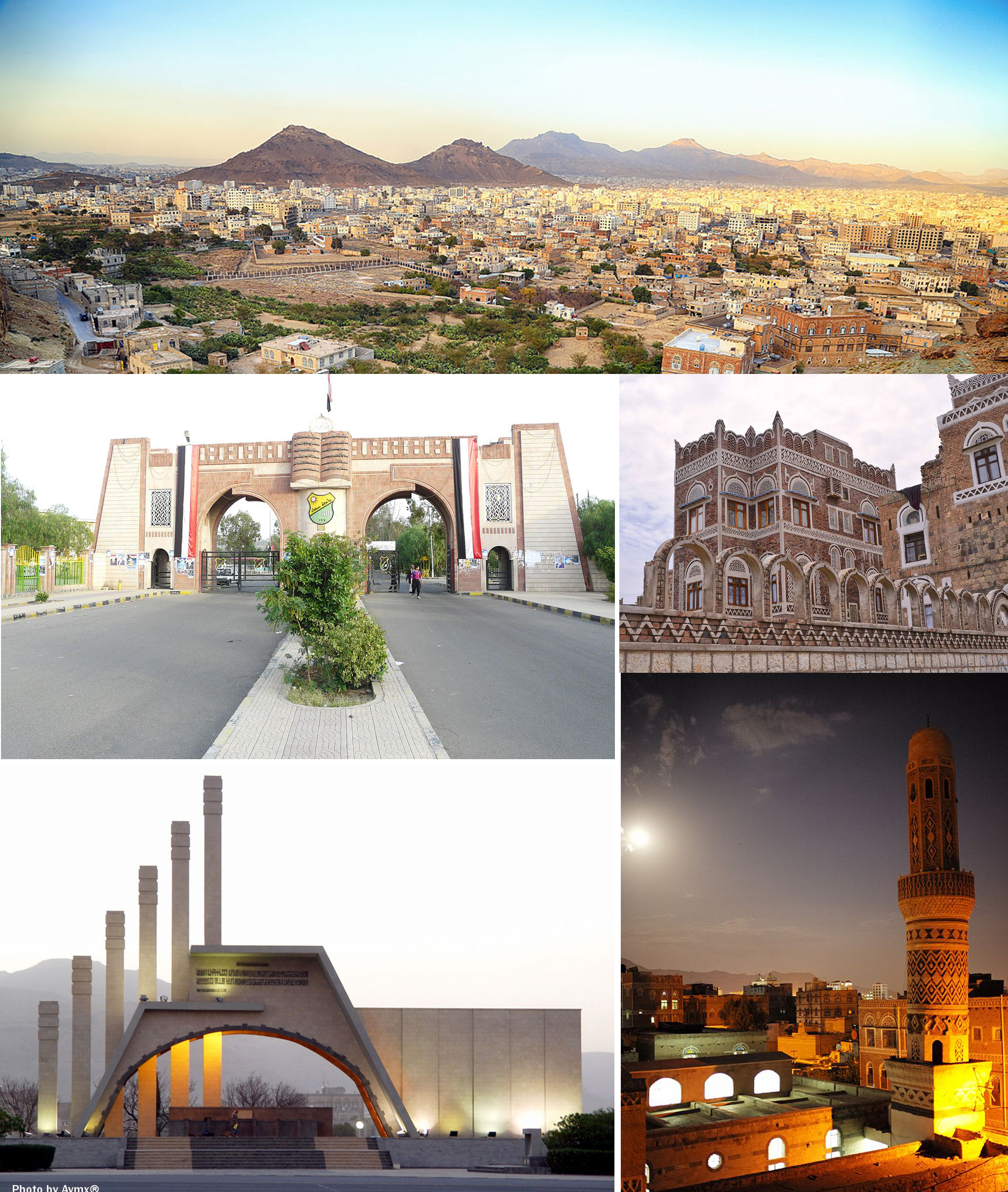 Combined images of Sana'a.